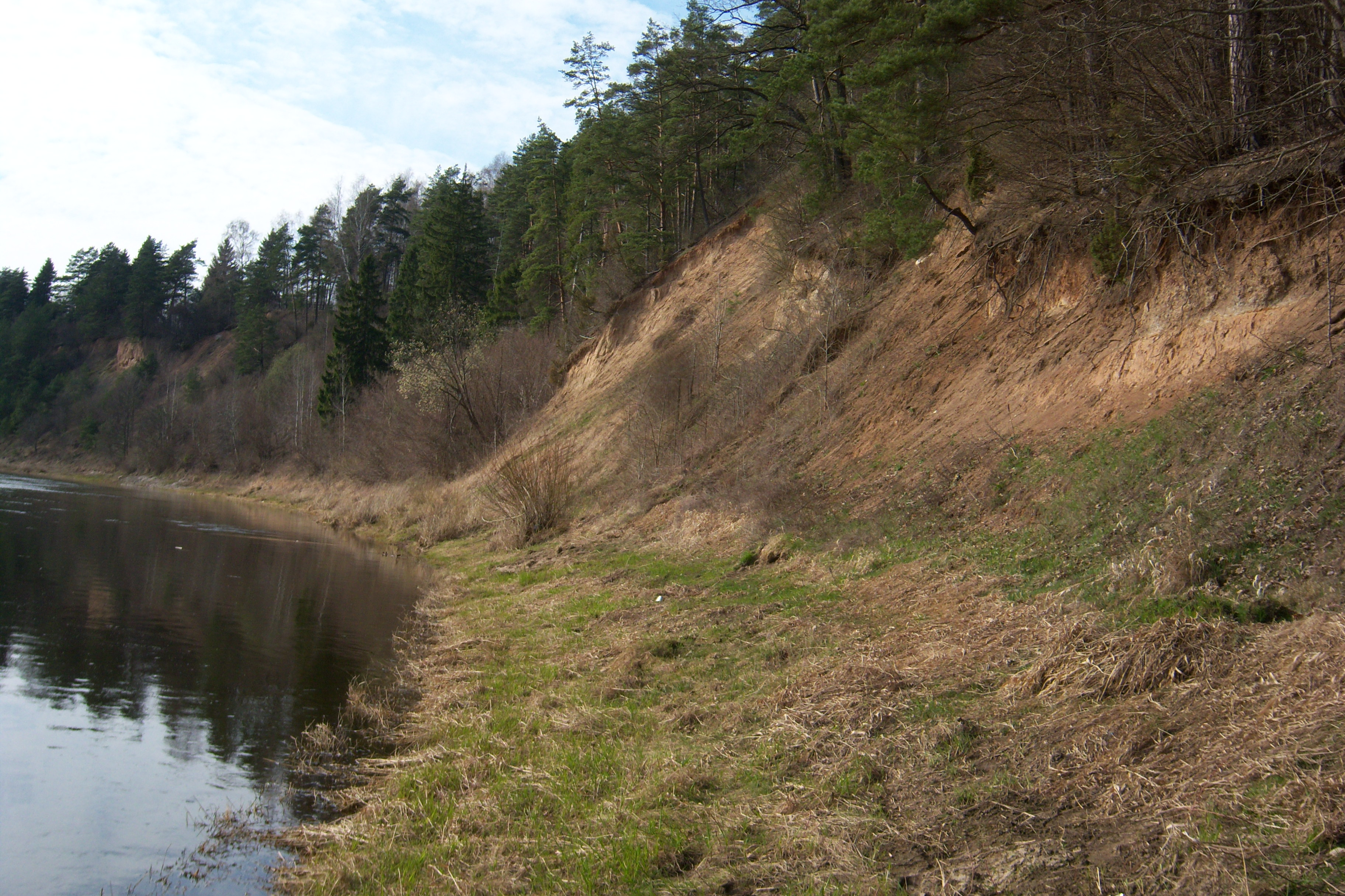 Exposure of Nemunas River bank in Škėvonys, Birštonas Municipality, Lithuania